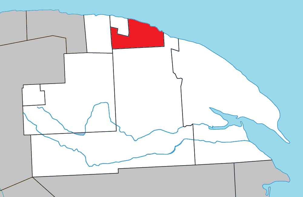 Location of Cloridorme, Quebec within La Côte-de-Gaspé Regional County Municipality.